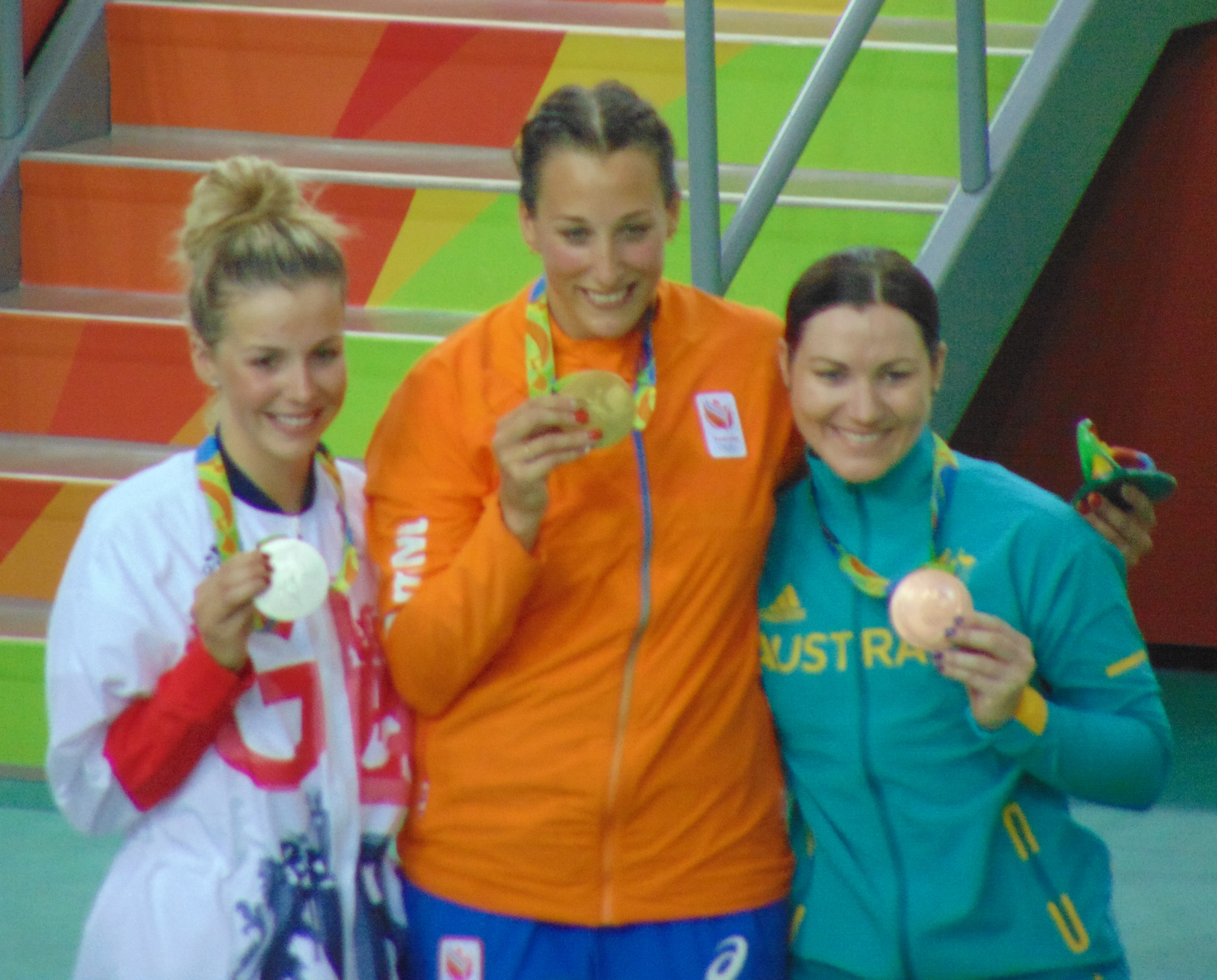 Rio 2016 - Track cycling 13 August (CT004)